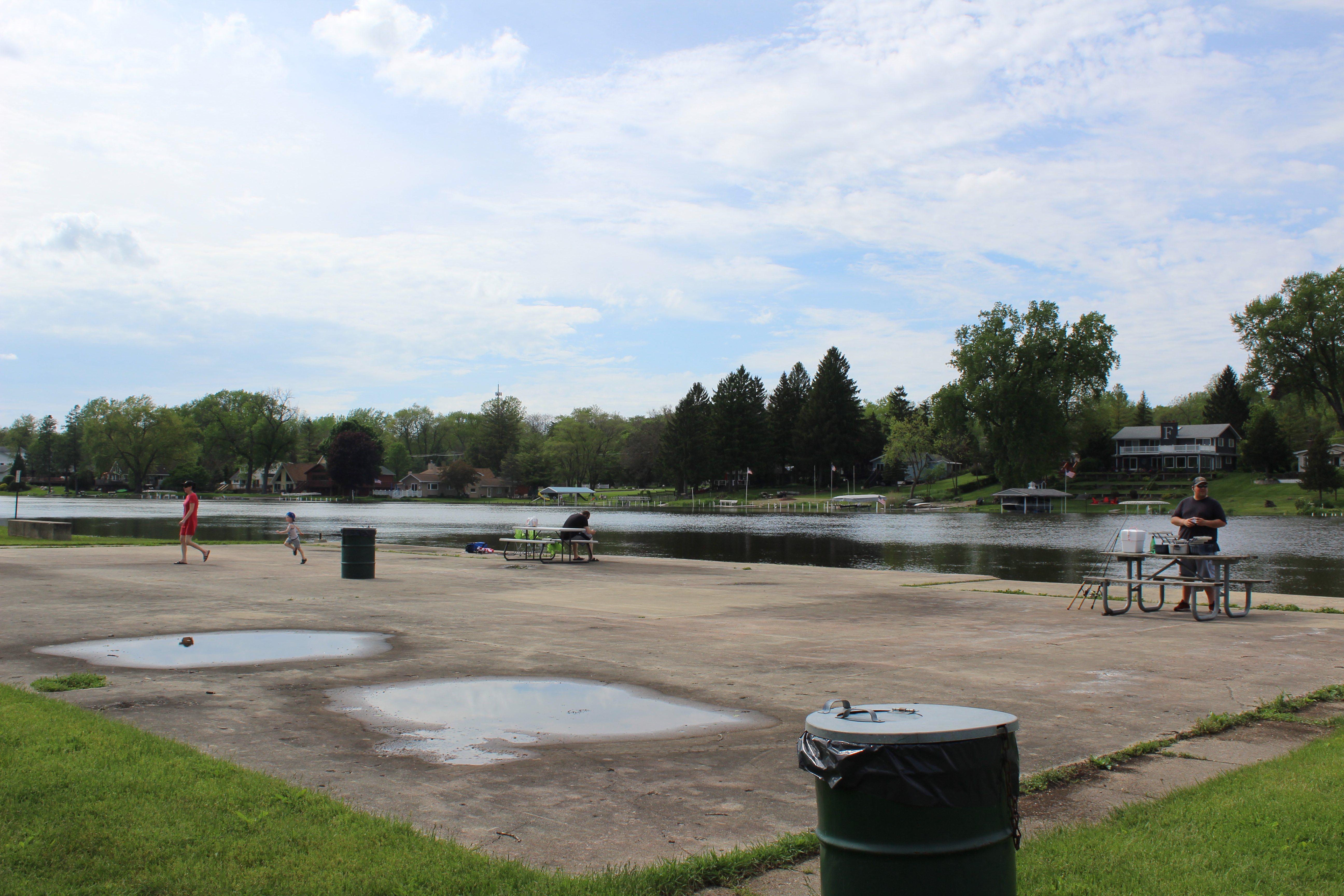 Concrete Slab at Picnic Grove Park, Fox River Grove, IL